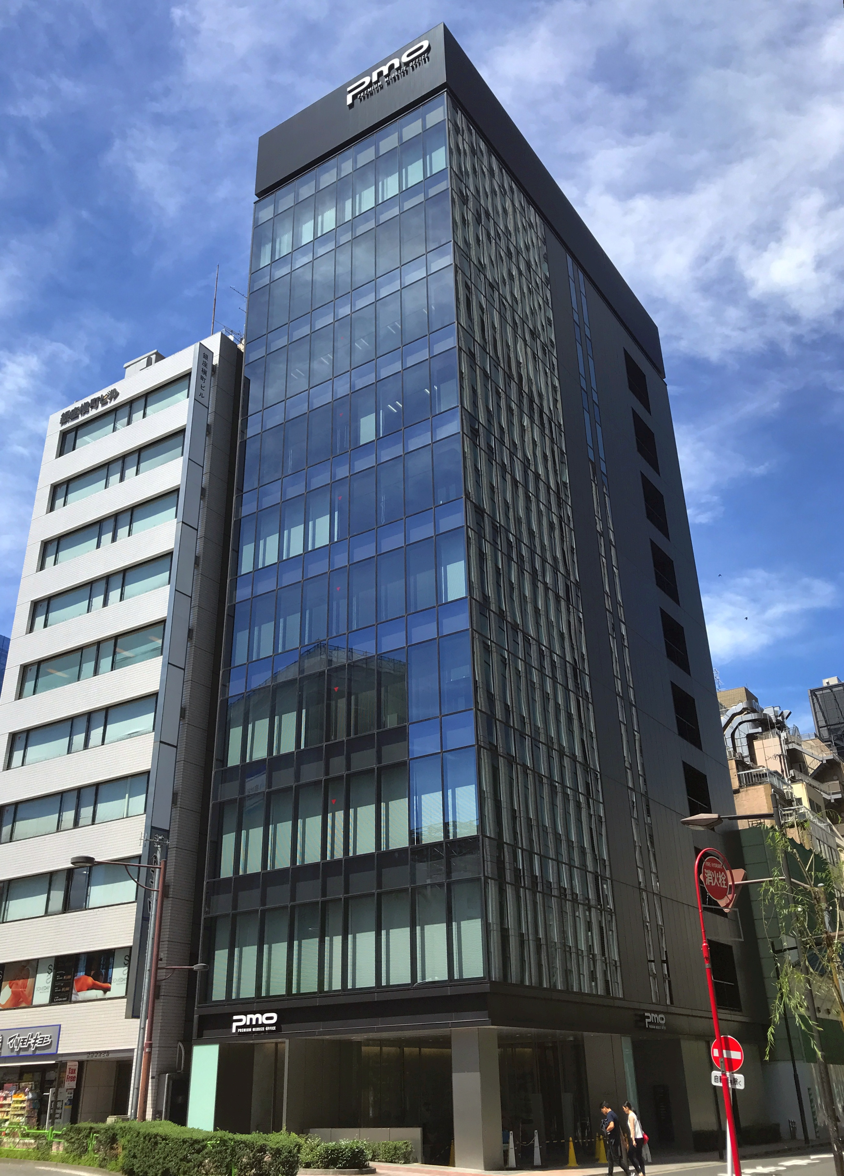 Office building "PMO Ginza Hatchome". Operation by Nomura Real Estate inc. Address: 8-12-8,Ginza,Chuo-ku,Tokyo,JAPAN.